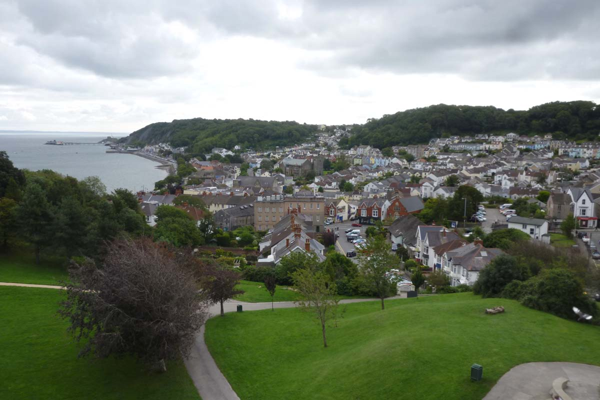 Looking southeast from the ramparts of Oystermouth Castle, overlooking The Mumbles near Swansea, Wales